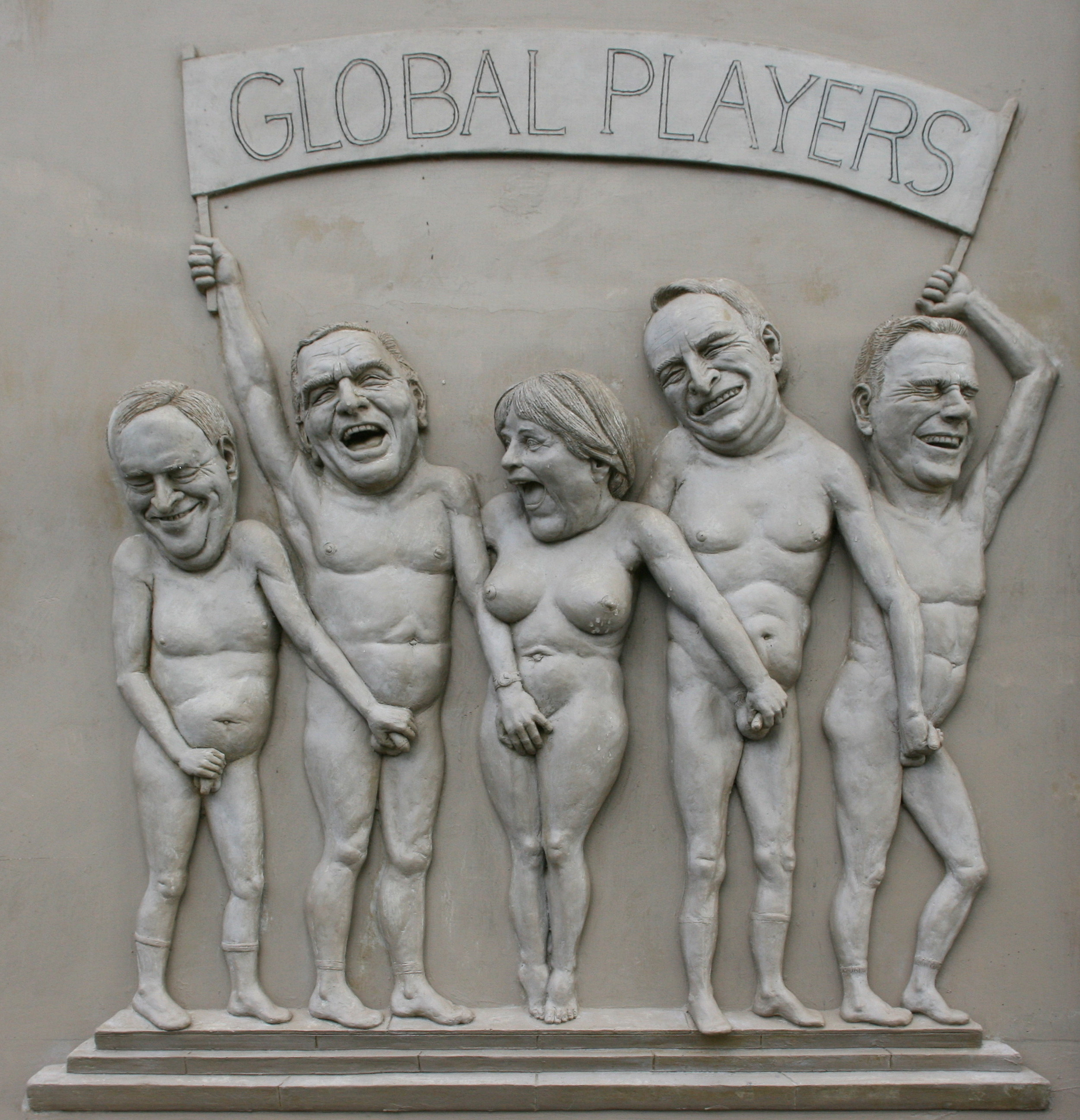 Relief “Ludwigs Erbe” by Peter Lenk, close to Zollhaus and tourist information, Hafenstraße 5, Ludwigshafen am Bodensee, Bodman-Ludwigshafen in Germany: Right-hand part of the triptych, from left to right: Hans Eichel, Gerhard Schröder, Angela Merkel, Edmund Stoiber and Guido Westerwelle